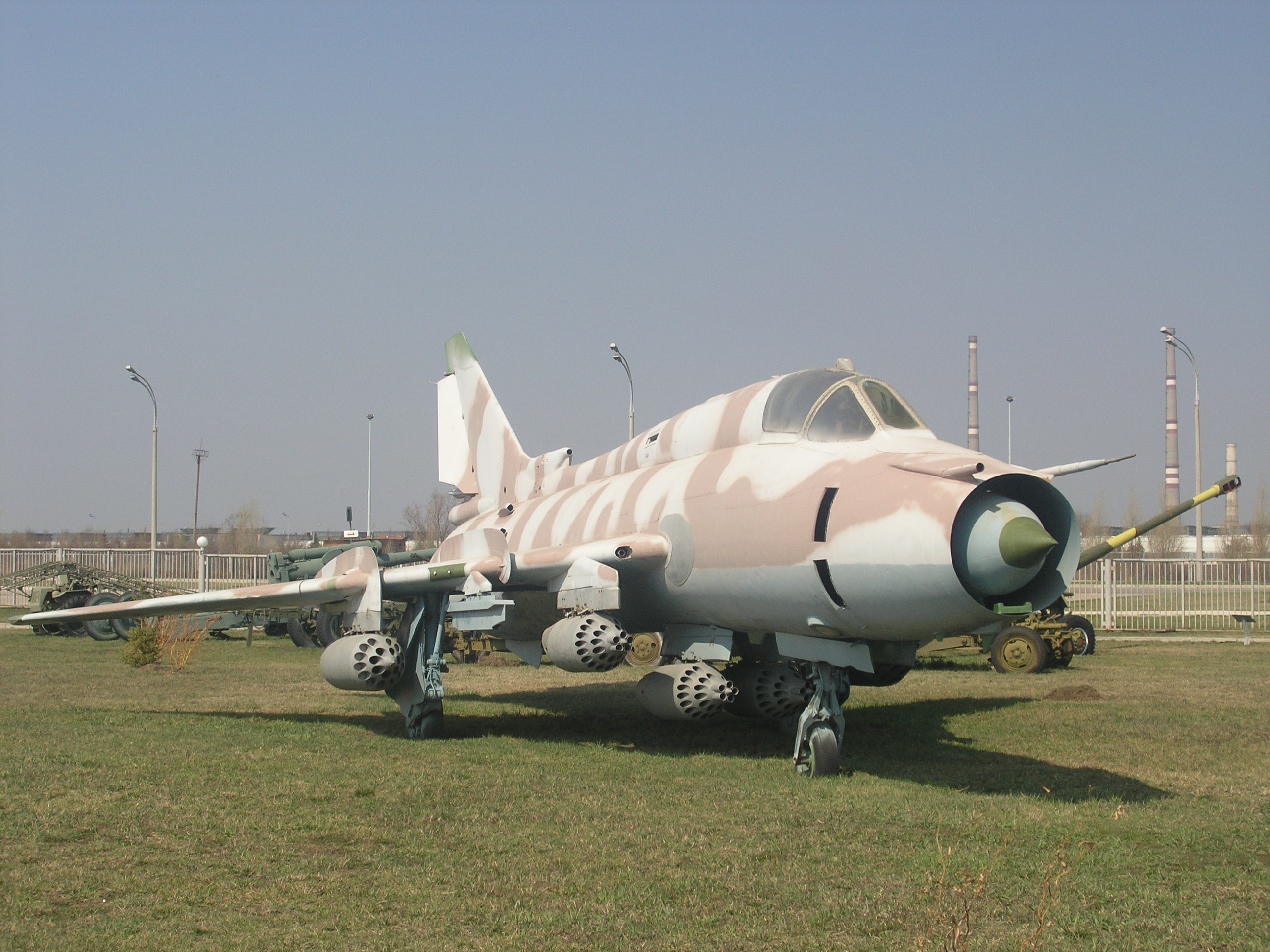 Su-17, technical museum, Togliatti, Russia